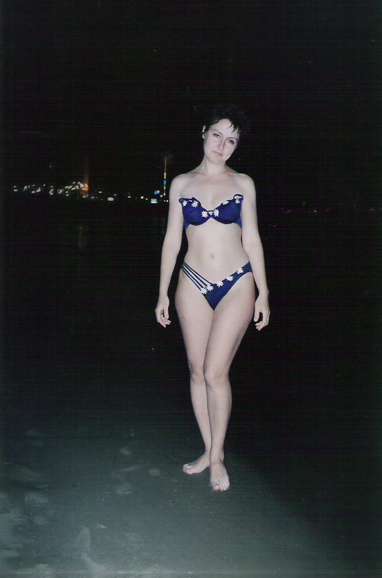 woman on the beach in Bat-Yam, Israel